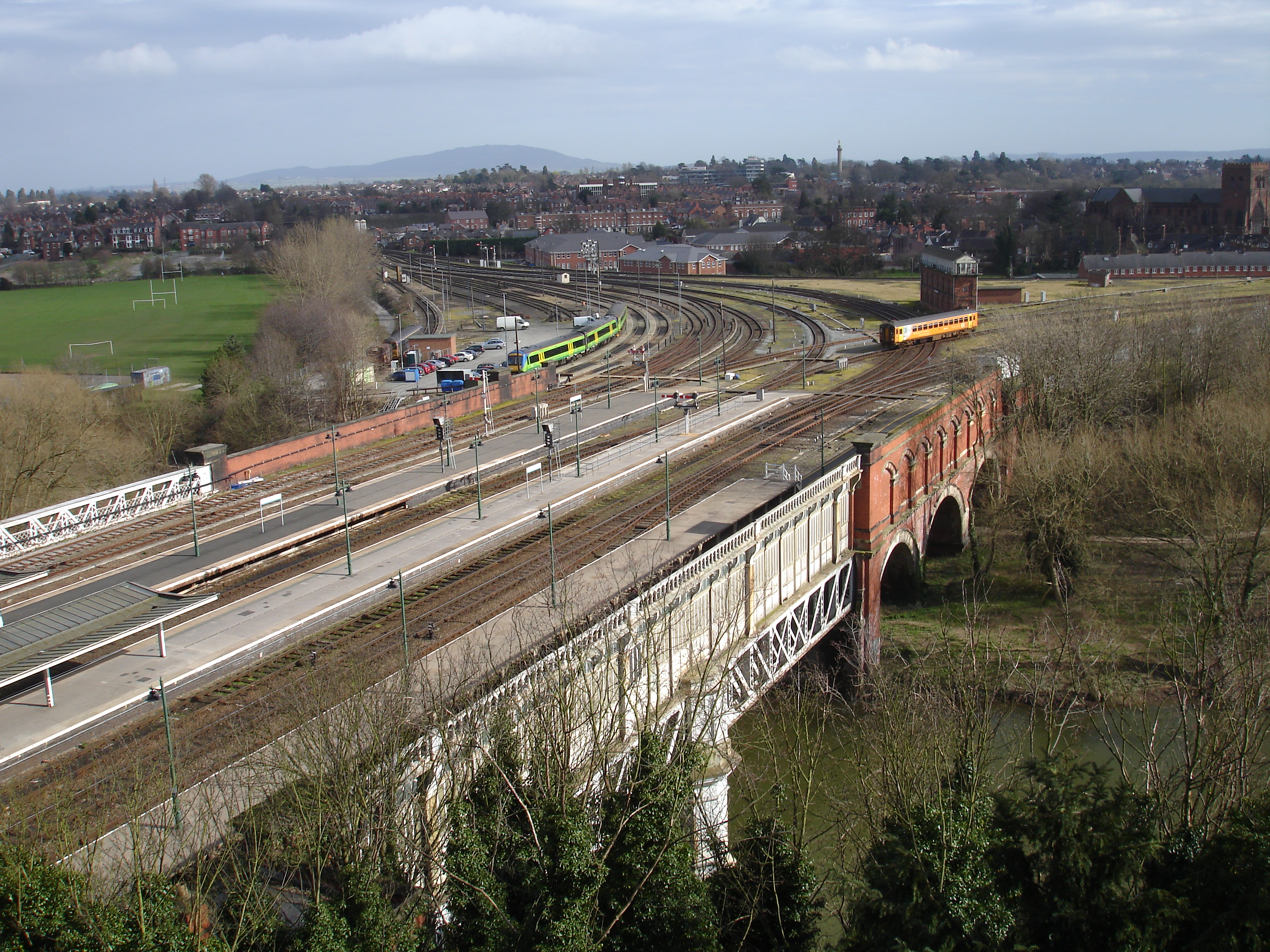 S Knights, my photo, March 2007